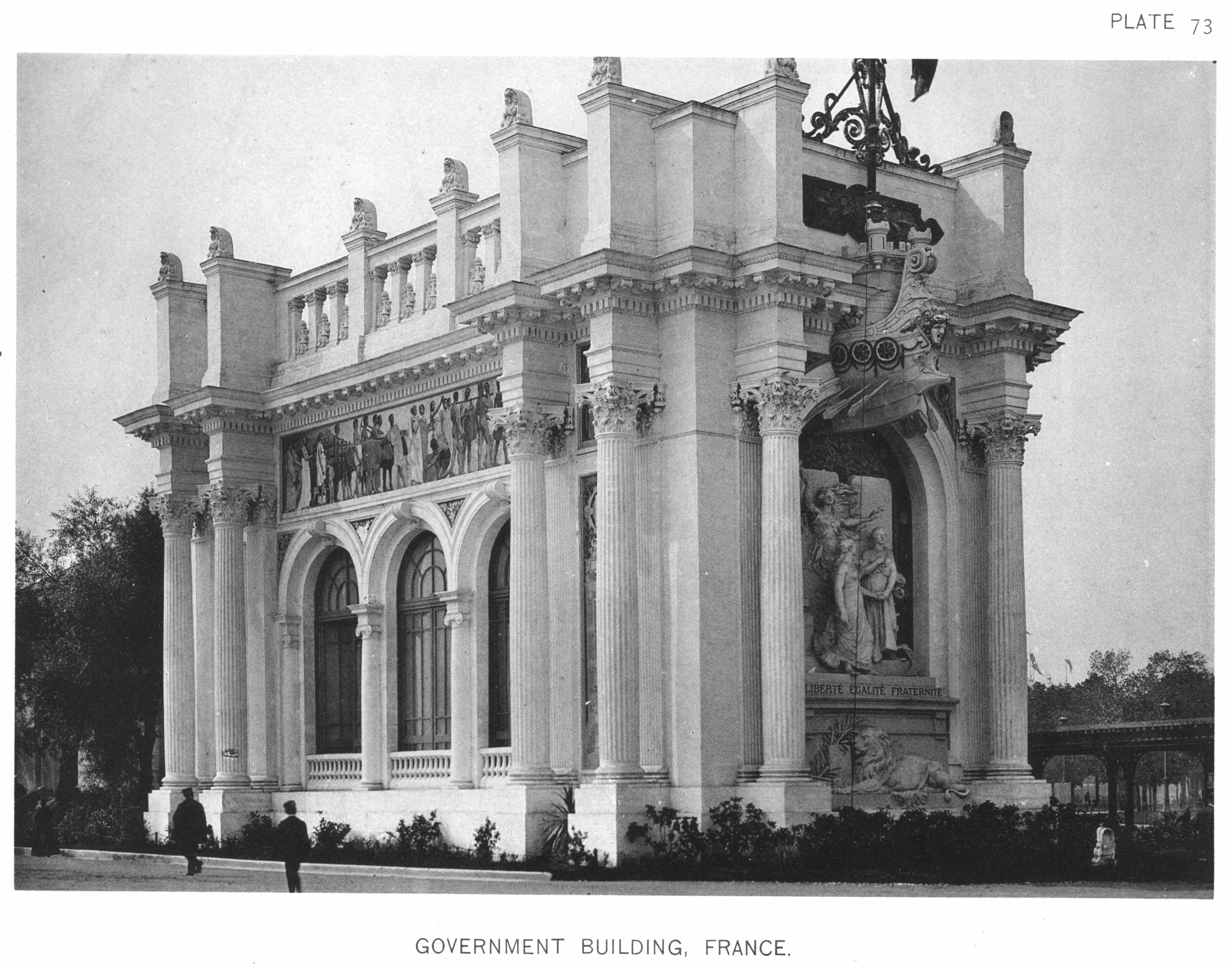 Official Views Of The World's Columbian Exposition: Government Building, France